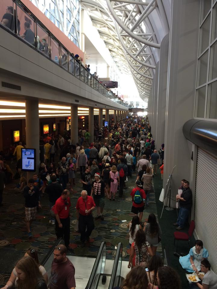 Crowds in the Salt Palace Convention Center at the 2014 Salt Lake Comic Con in Salt Lake City, Utah